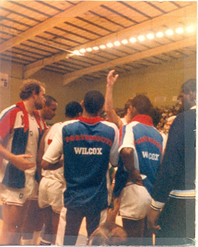 Portsmouth FC Basketball Club v Calderdale Explorers, National Cup semi-final, Aston Villa Leisure Centre, Birmingham, November 30th 1986. Portsmouth take a time-out.